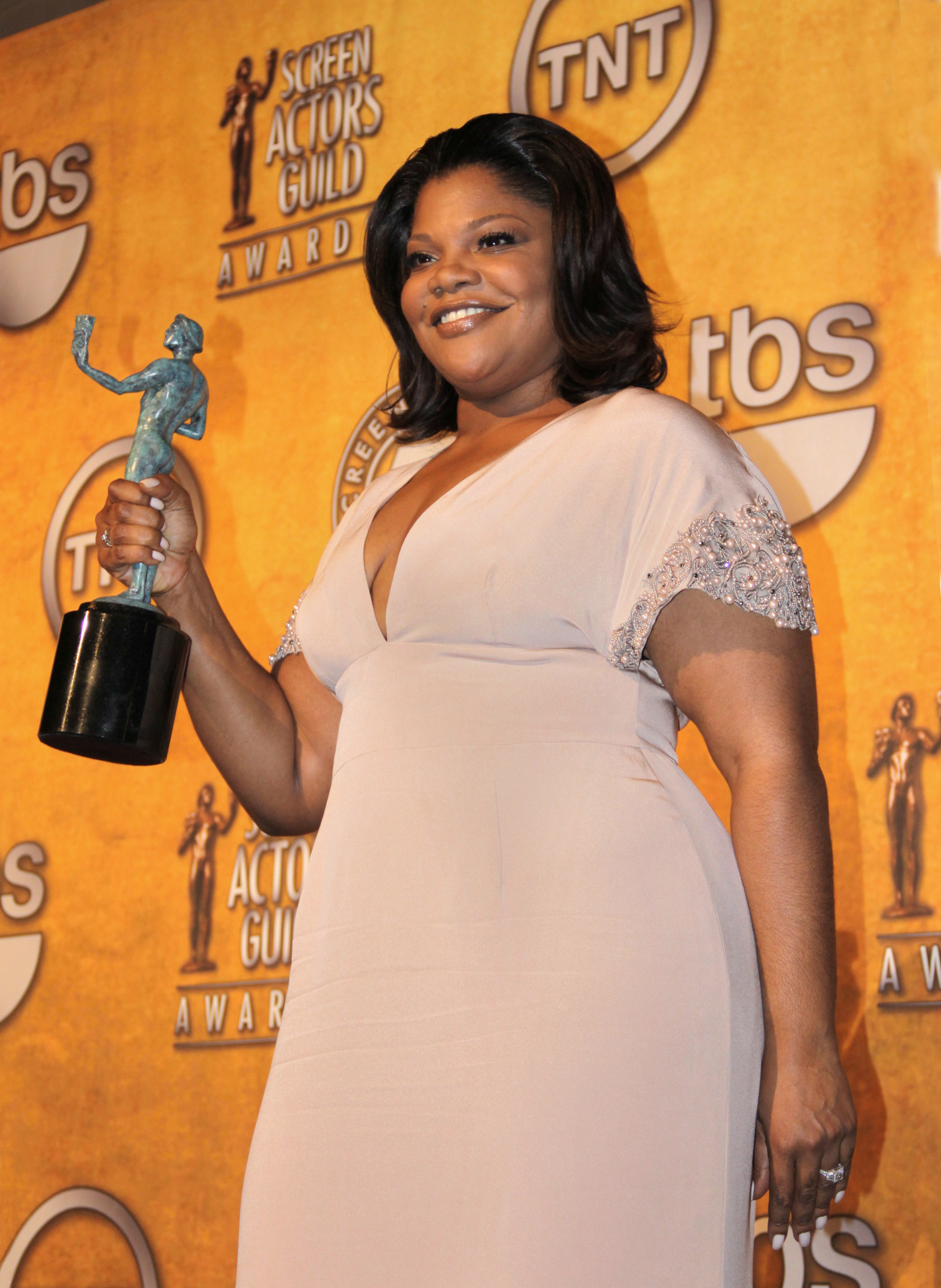 Mo'Nique, winner of the 2010 SAG award for Outstanding Performance by a Female Actor in a Supporting Role as Mary in the film "Precious